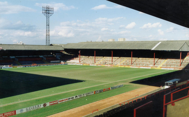 Bramall Lane Kop and John Steet terraces in 1989